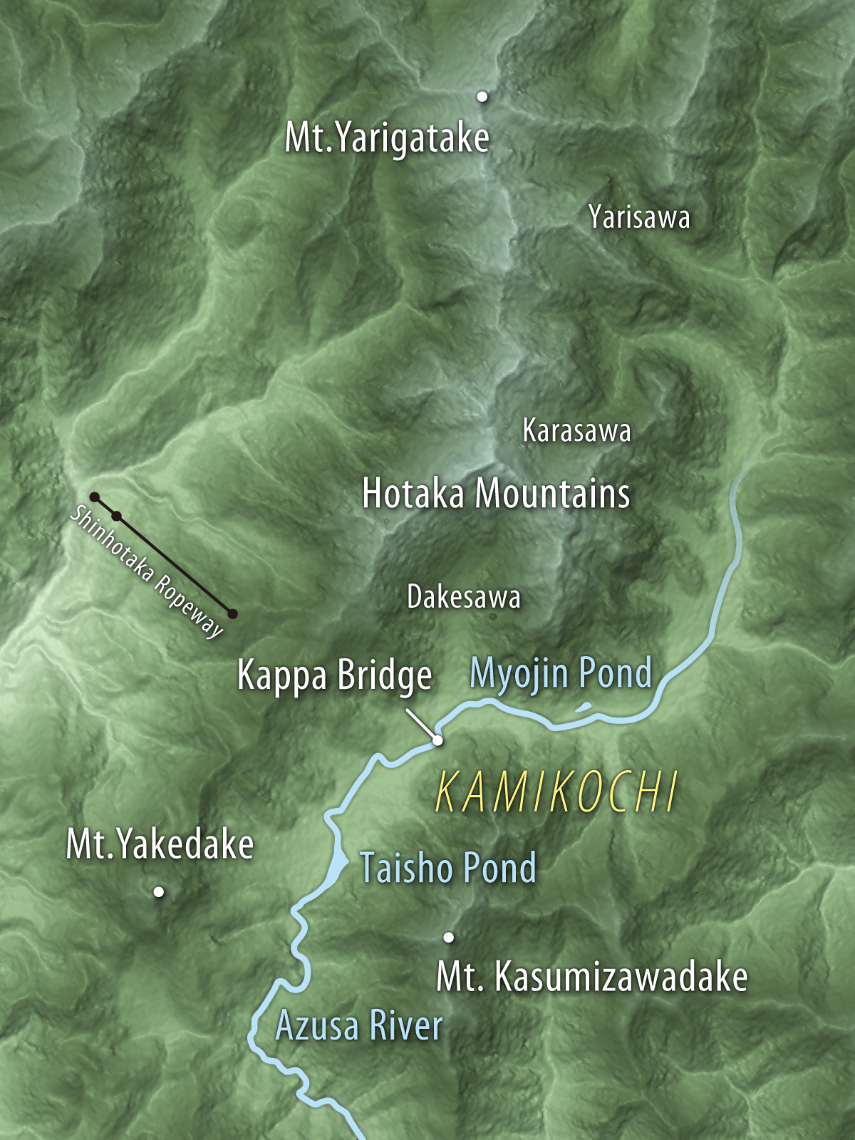 Kamikōchi in Hida Mountains, Nagano Prefecture, Honshu, Japan.